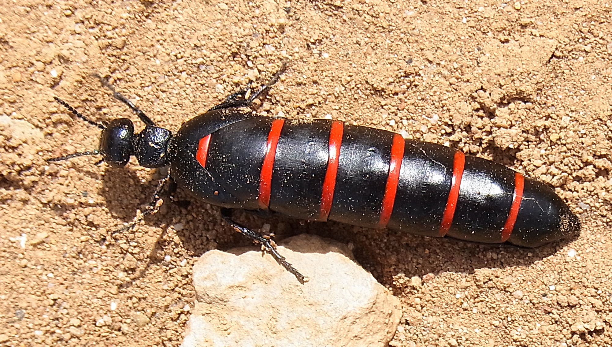 Berberomeloe majalis from North-West Spain west of Manresa